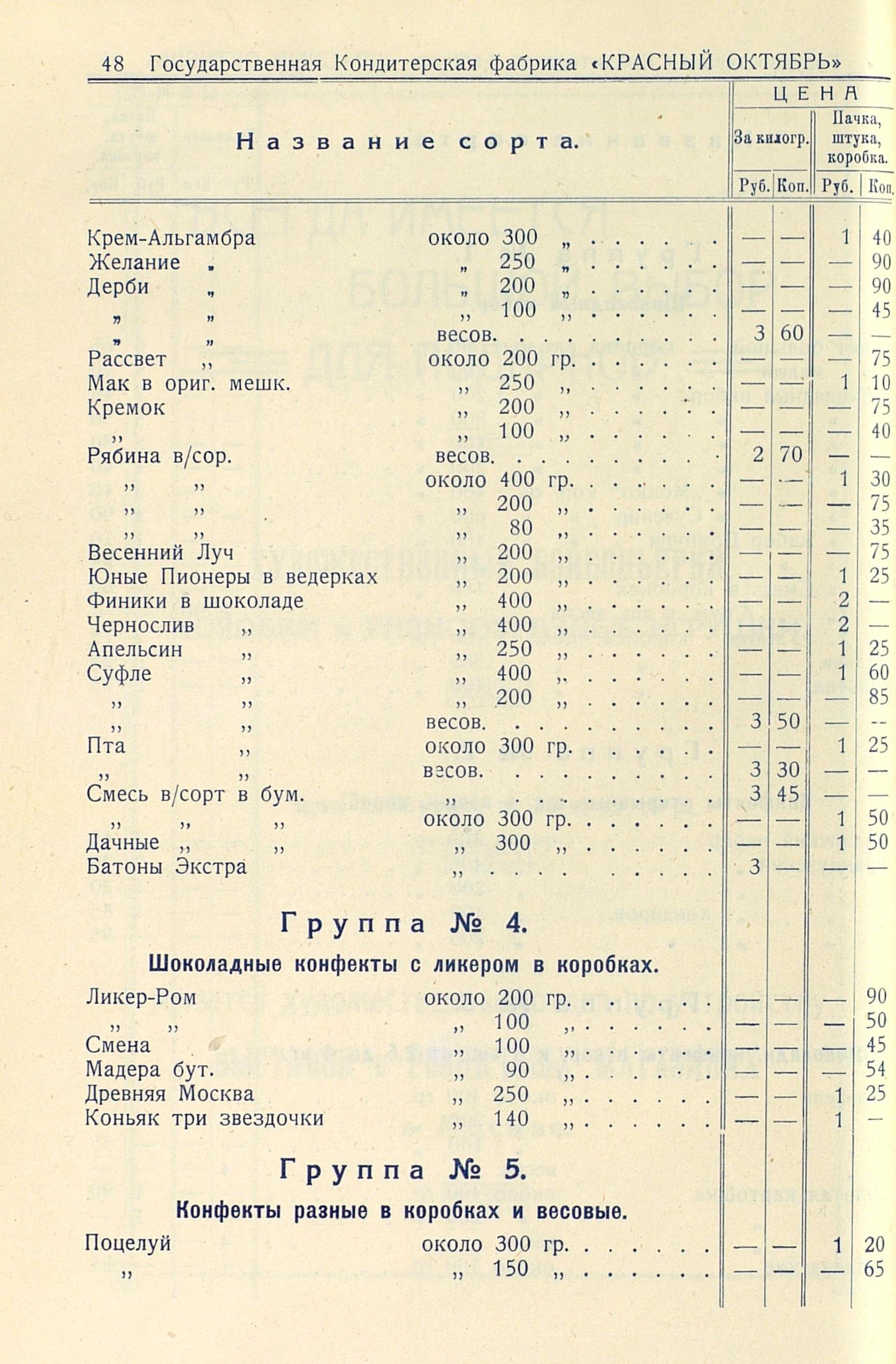 Page fromː Mosselprom: Price list of the products the state confectioneries. Moscow, 1927. P. 48.